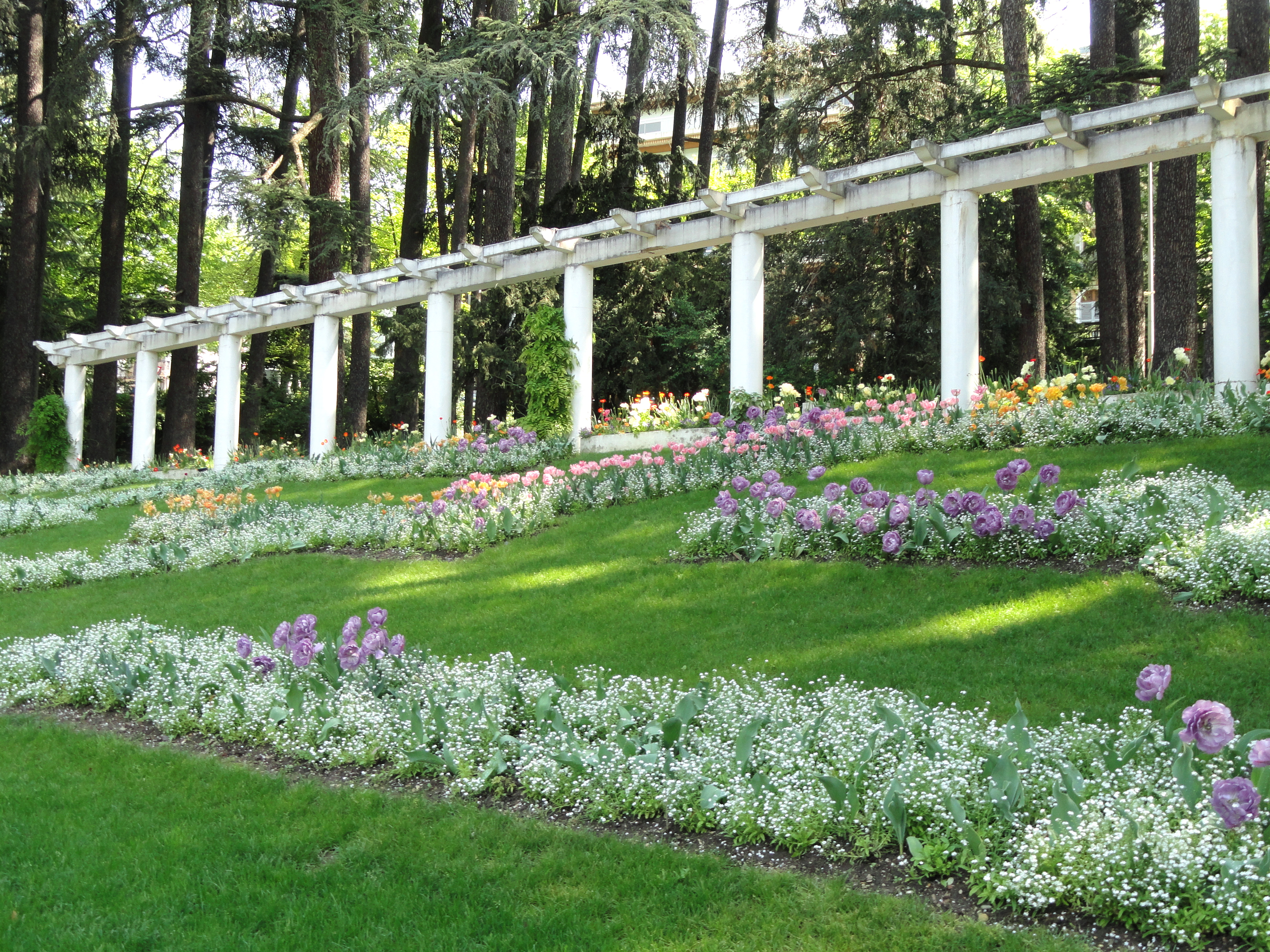 Parc floral des Thermes, Aix les-Bains, France.